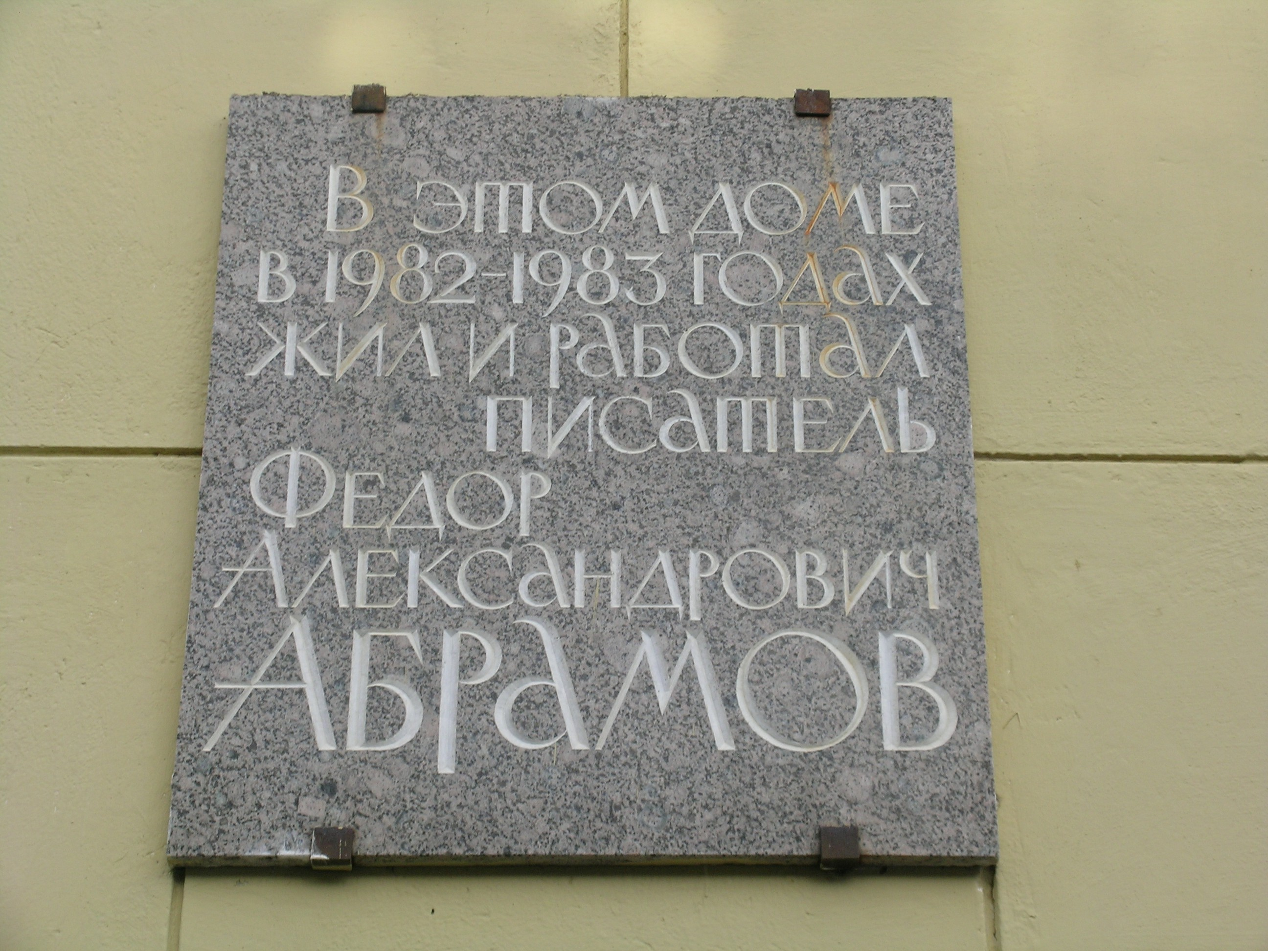 Plaque at Russian writer Fyodor Abramov's house in St Petersburg. (He lived there in 1982-83)